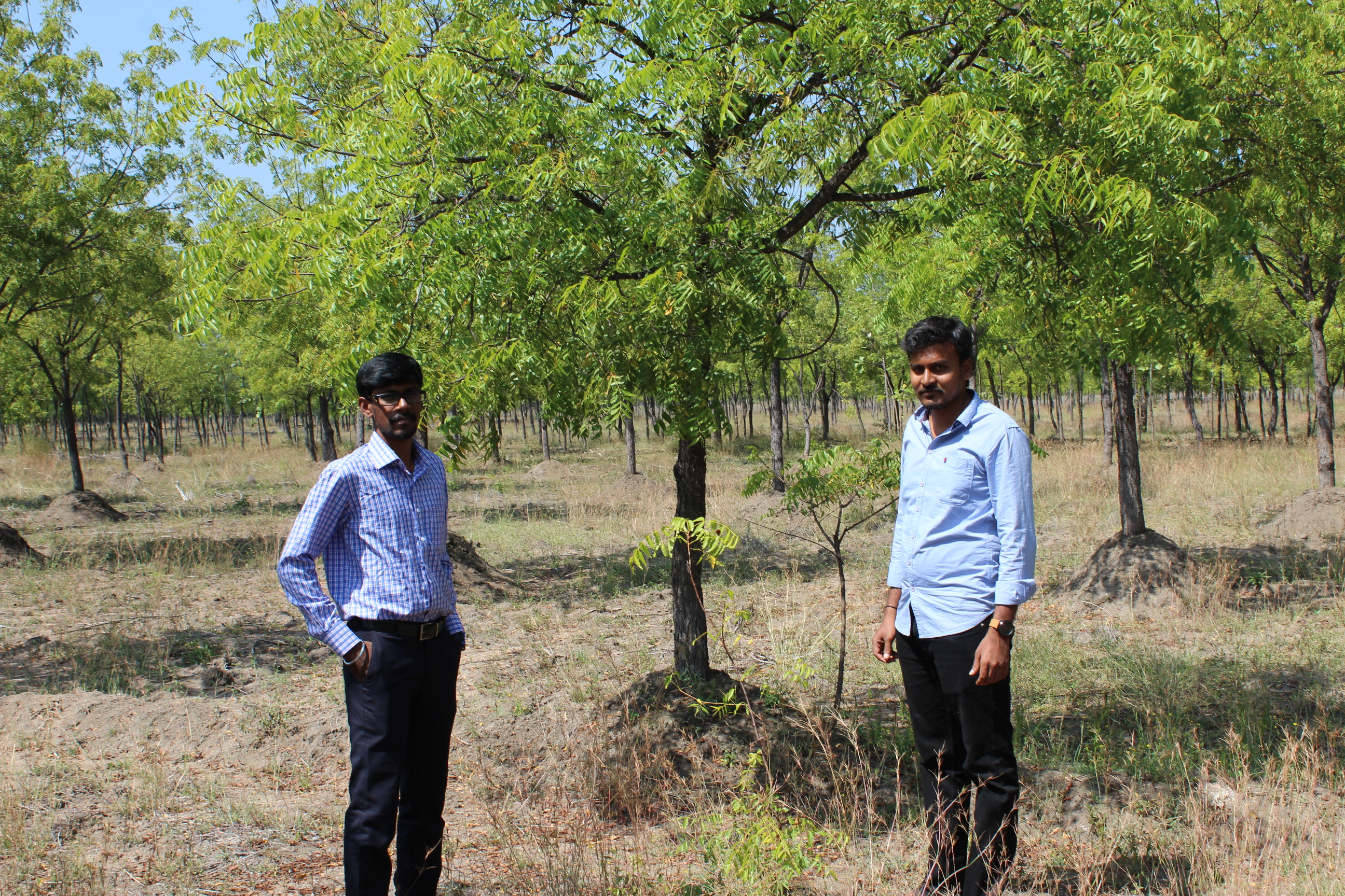 Ineem tree farm in south India